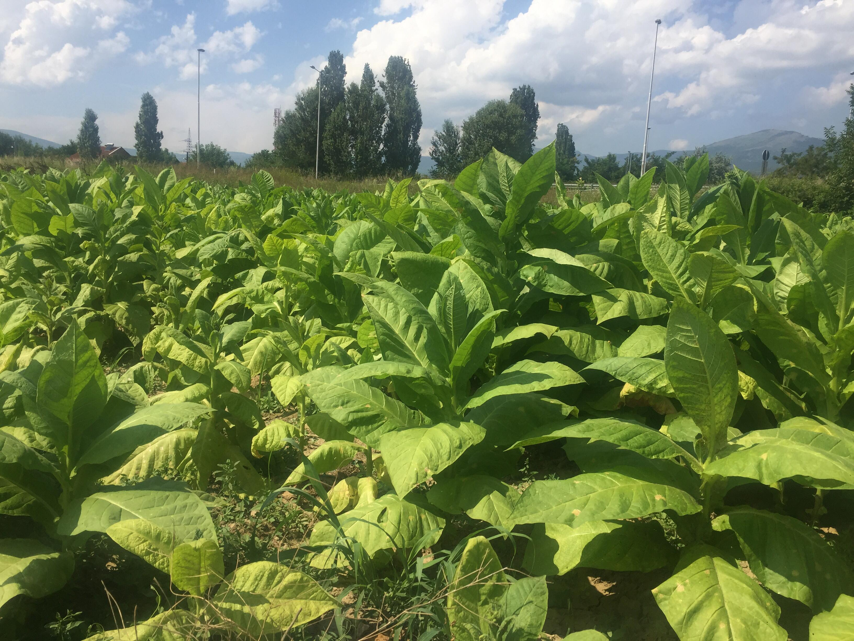 Field of tobacco in Skopje region